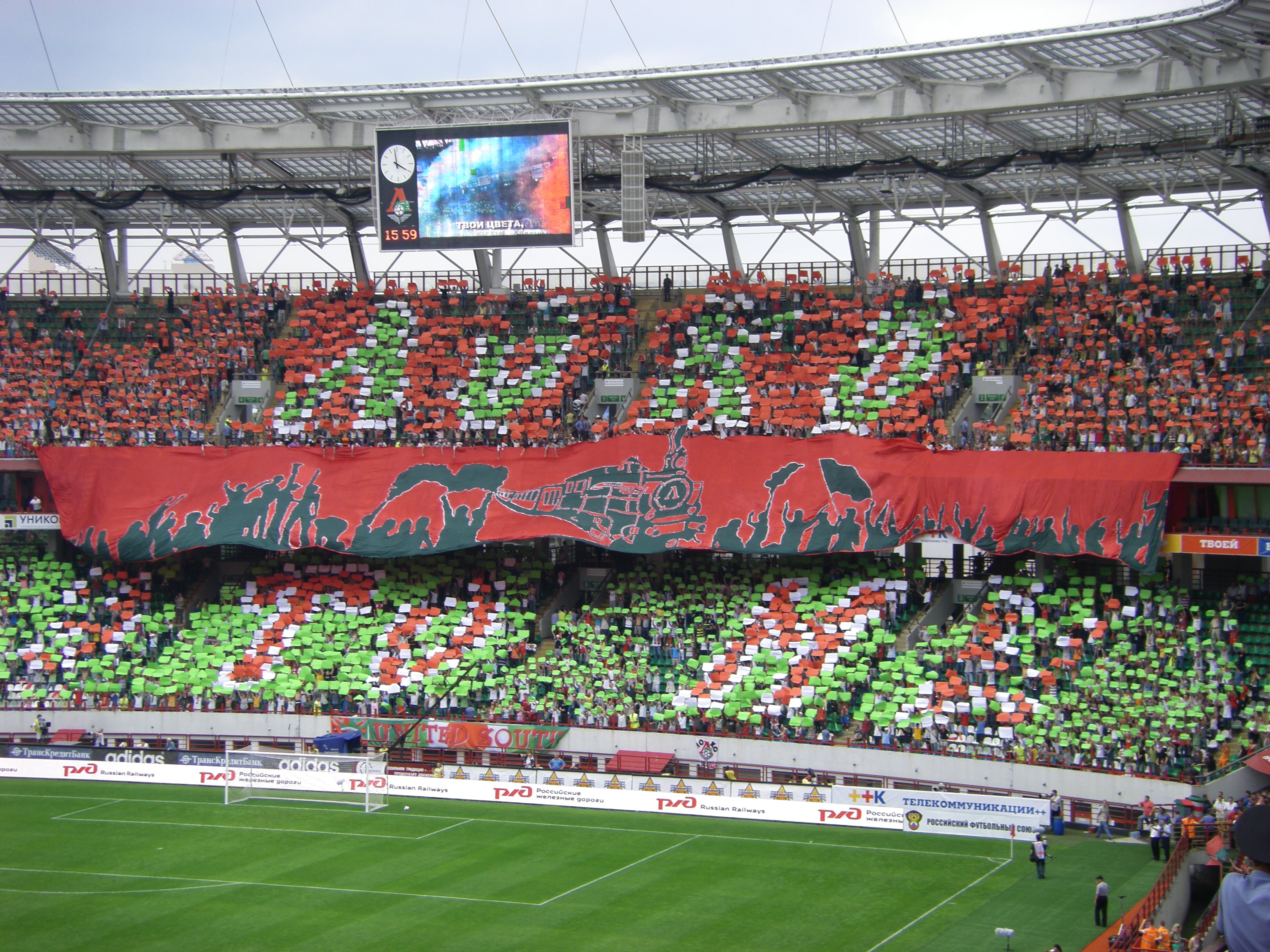 South (fans) stand of the Lokomotiv in the Derby against Spartak (2:2), 19 July 2008